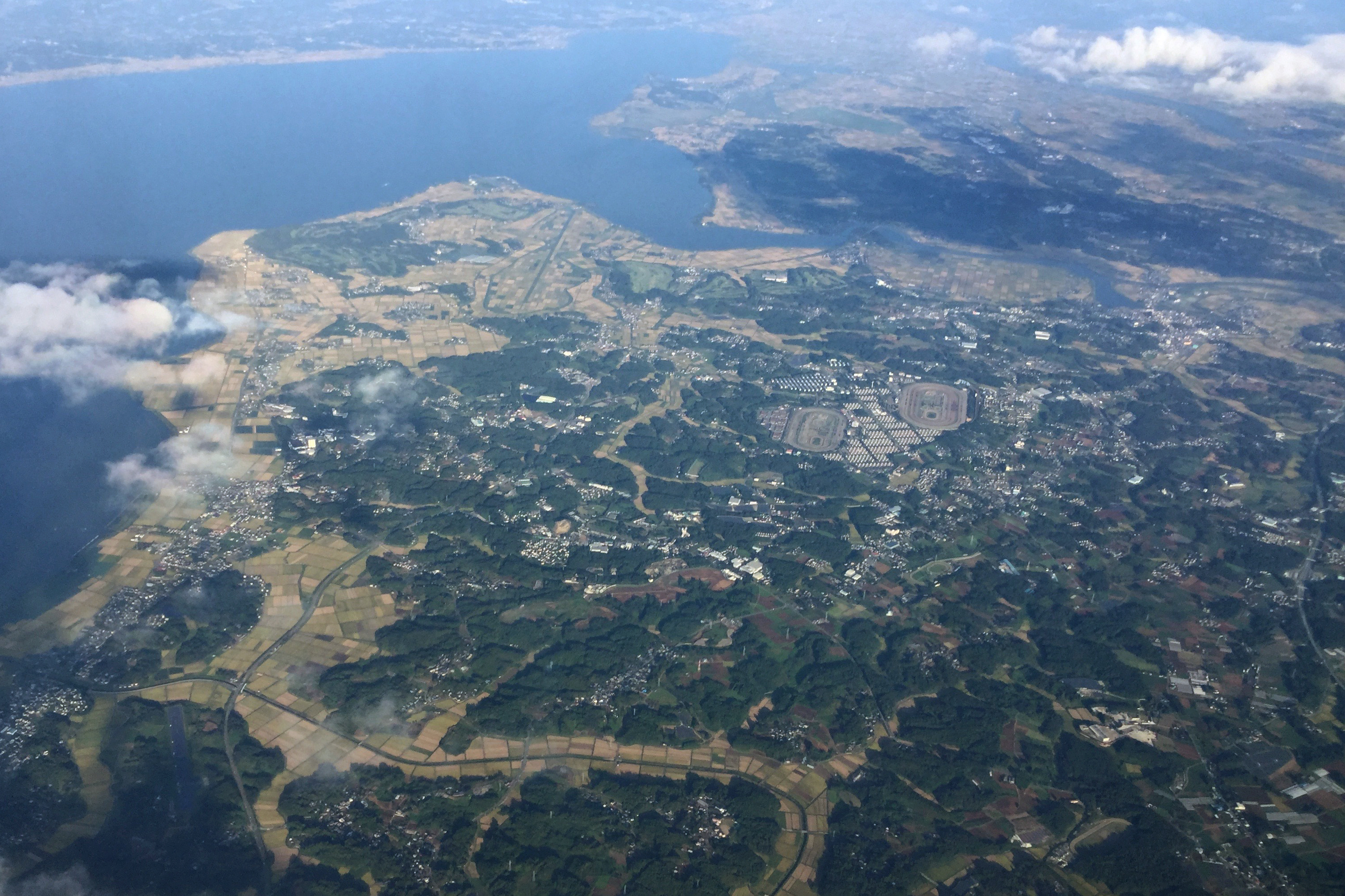 Miho Village as seen from the west in Ibaraki Prefecture, Japan. Lake Kasumigaura on the left.